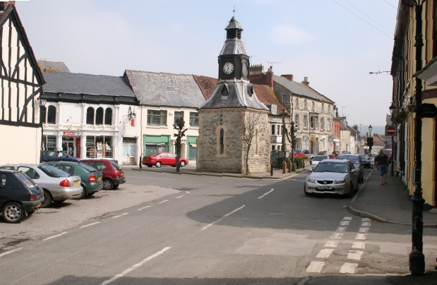 Mere. Mere town centre